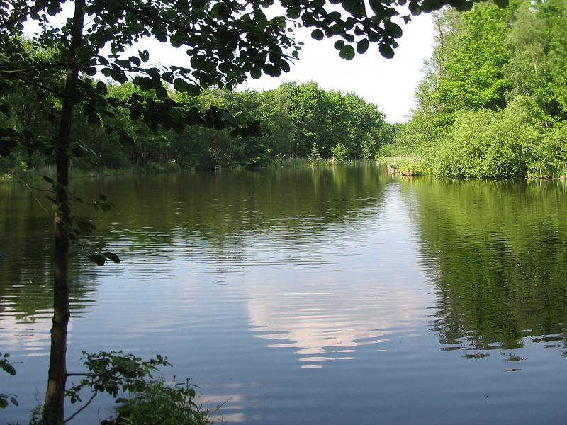 Lake “Selchower See“. The village Selchow is a part of the municipality Schönefeld in the district Dahme-Spree, state Brandenburg, Germany.